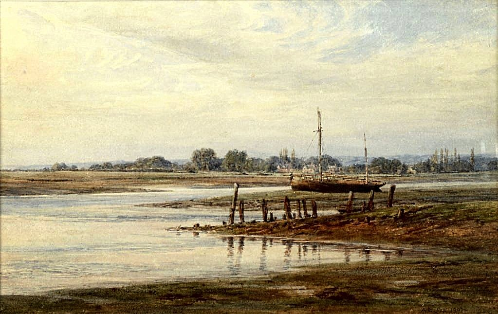 Cut Mill from the Quay, Bosham, West Sussex. Watercolour, signed lower-right with initials and dated 1903. Richard Martin Gallery: Dr Arthur Evershed, painter, etcher, physician was born into a Sussex family at Billingshurst in 1836 and moved to Fishbourne from Hampstead in 1894. He was educated in London at Alfred Clint's studio and Leigh's School of Art (1852-59). Life as an artist was too uncertain so he followed his father and brother in studying medicine. He qualified in 1863 and married Mary Field (daughter of the Assay Master at the Royal Mint) in the Chapel Royal of the Tower of London in 1864.